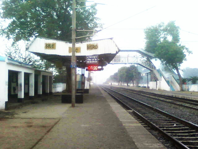 Bero Railway Station